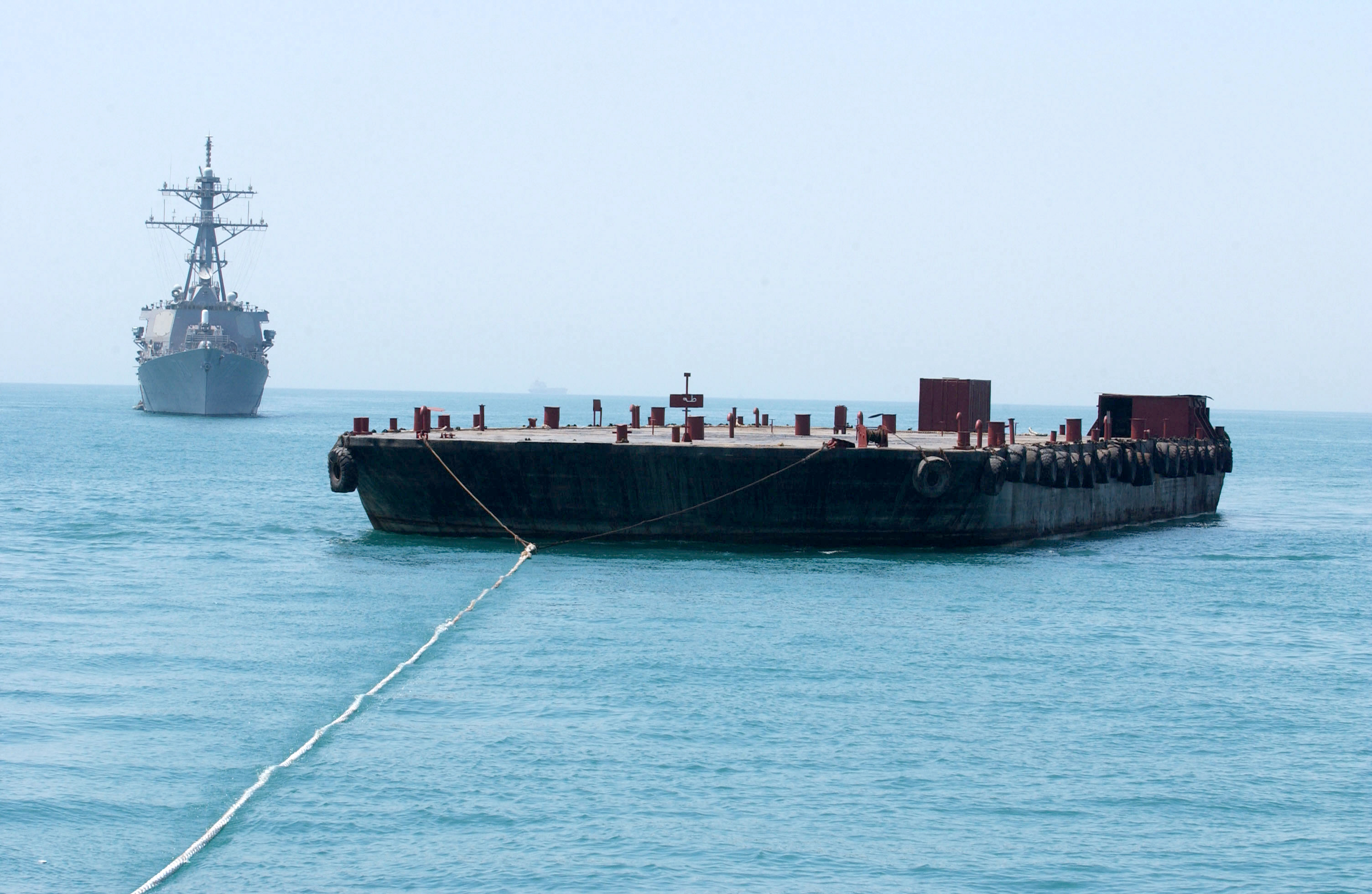 At sea with the guided missile destroyer USS Hopper (DDG 70) Aug. 4, 2002 -- A tug pulling oil barges suspected of smuggling illegal oil out of Iraq is followed by USS Hopper. The Hopper is on a regularly scheduled deployment conducting missions in support of Operation Enduring Freedom and Operation Southern Watch. U.S. Navy photo by Chief Photographer’s Mate Johnny R. Wilson. (RELEASED)